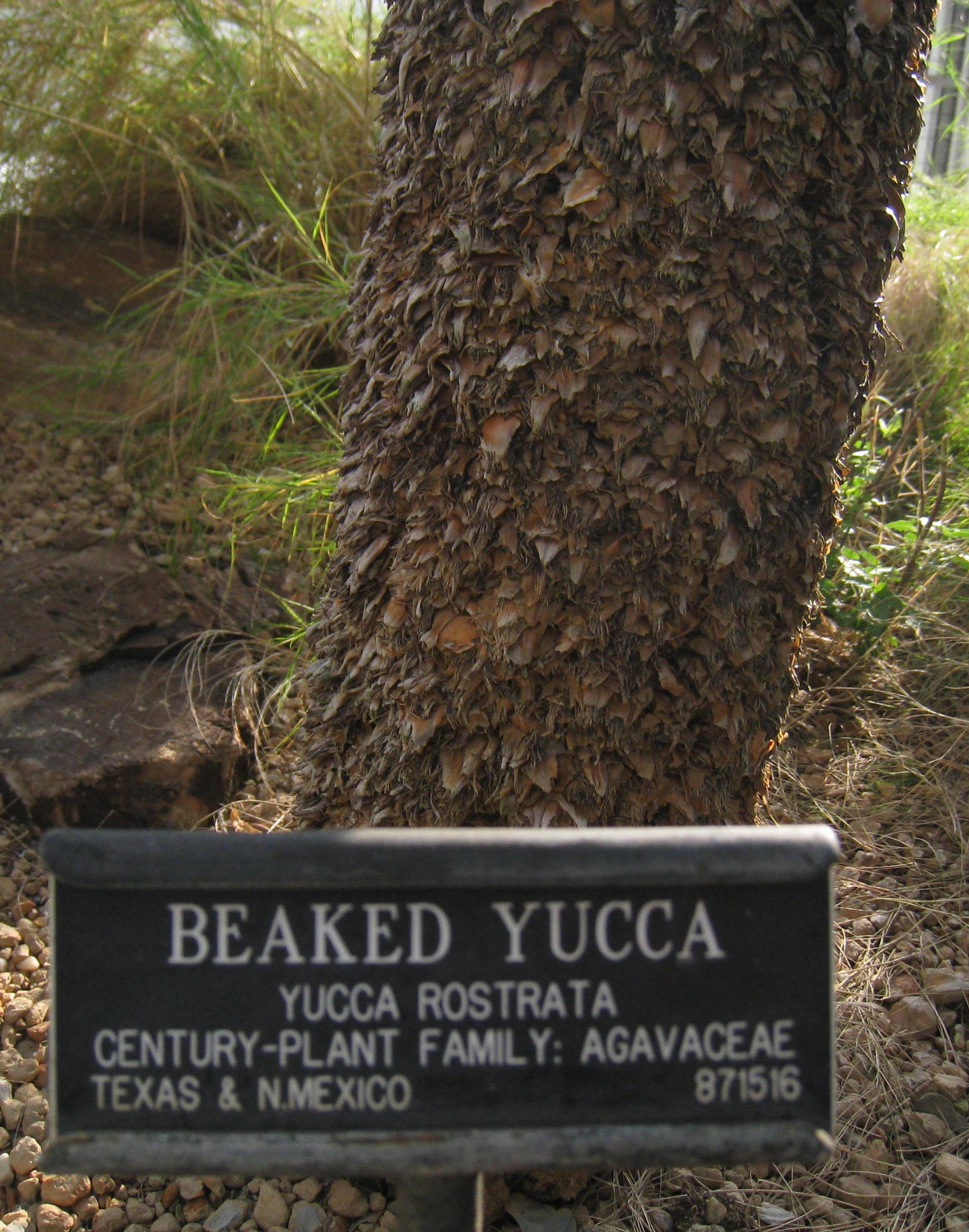 Detail of the trunk of Yucca rostrata, which perhaps shows how it got its name. From the Brooklyn Botanic Garden